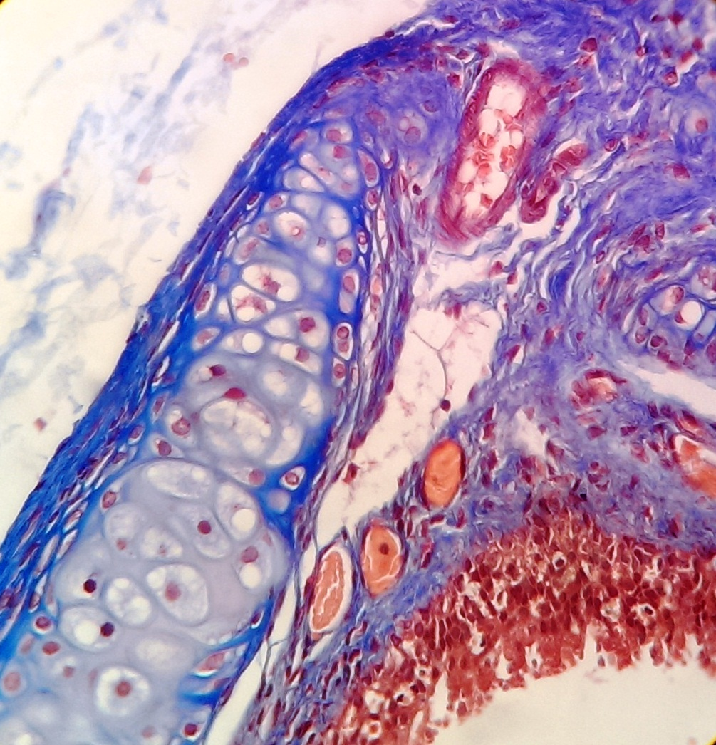 The muscle is stained red, whereas the cartilage is blue in colour. Some of the red blood cells are also seen on this picture as shades of pink/red.